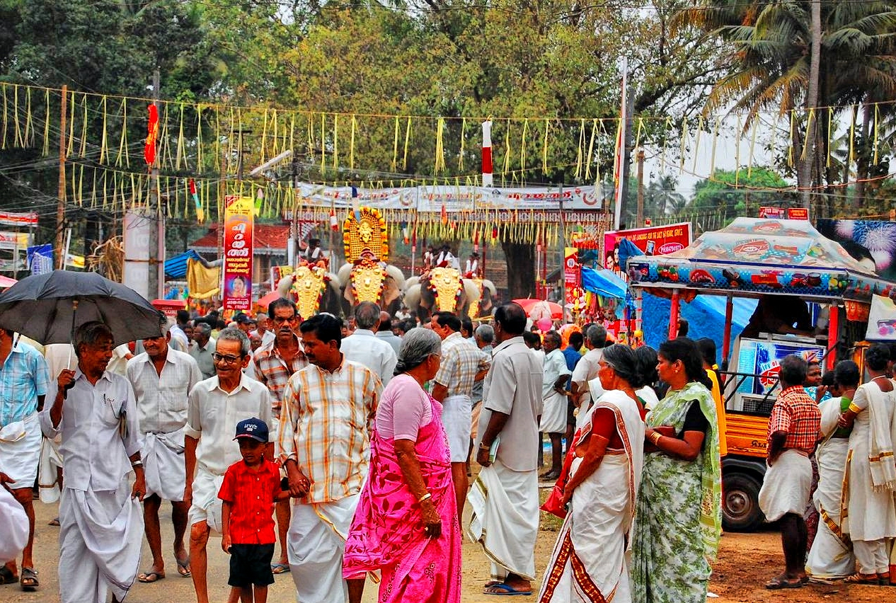 Procession of Kannampuzha Temple, Chalakudy, Kerala India